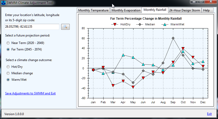 This is made by me using screen capture software of the GUI for the SWMM-CAT program. It is made my me and not by someone else